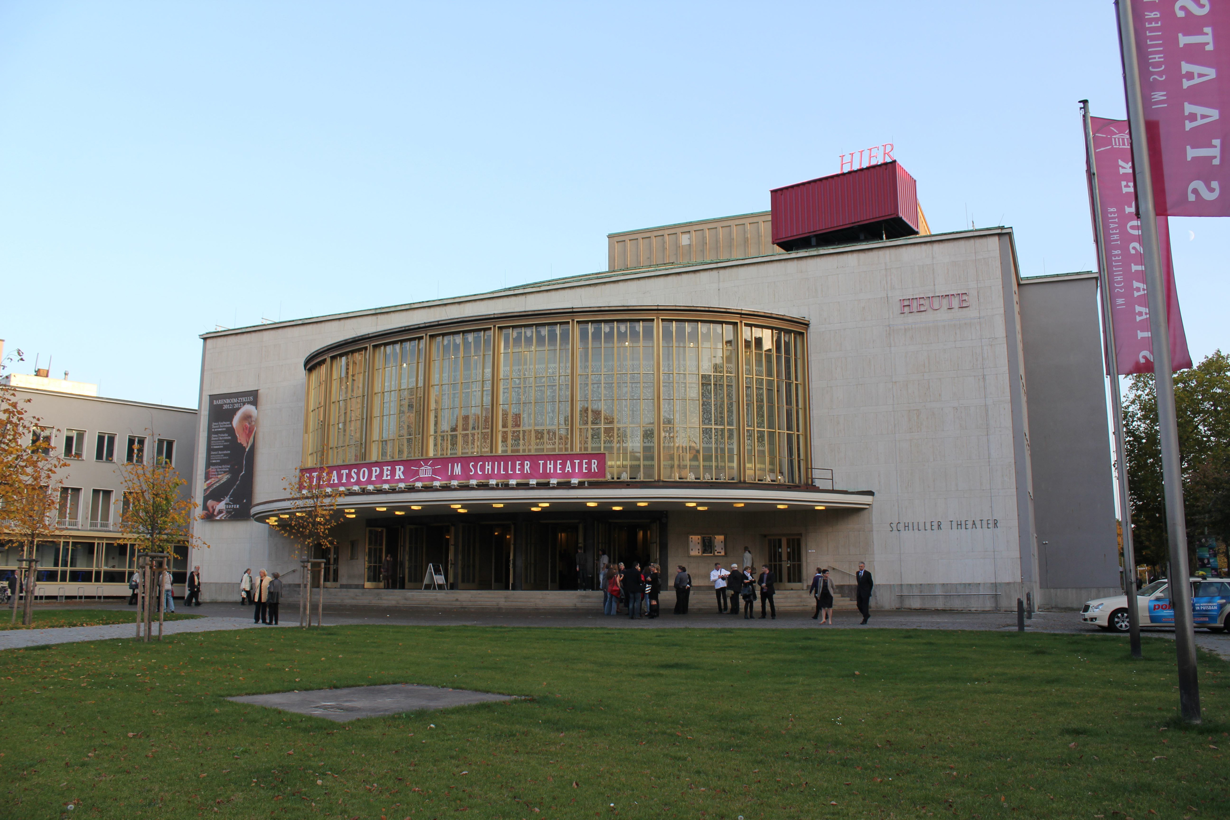 Staatsoper Unter den Linden im Schiller Theater 2012 autumn